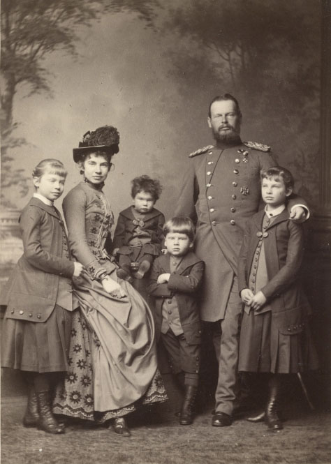 Archduchess Gisela of Austria with her husband Leopold of Bavaria and their children (Left to right:Elisabeth, Konrad, Georg and Auguste)